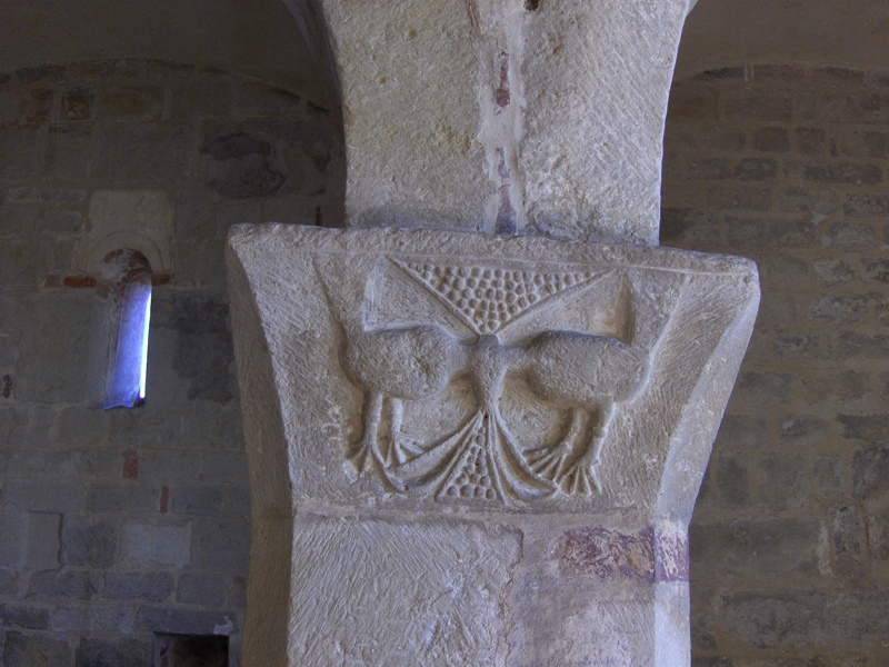 capital of a column, interior of San Secondo, Cortazzone, Piedmont